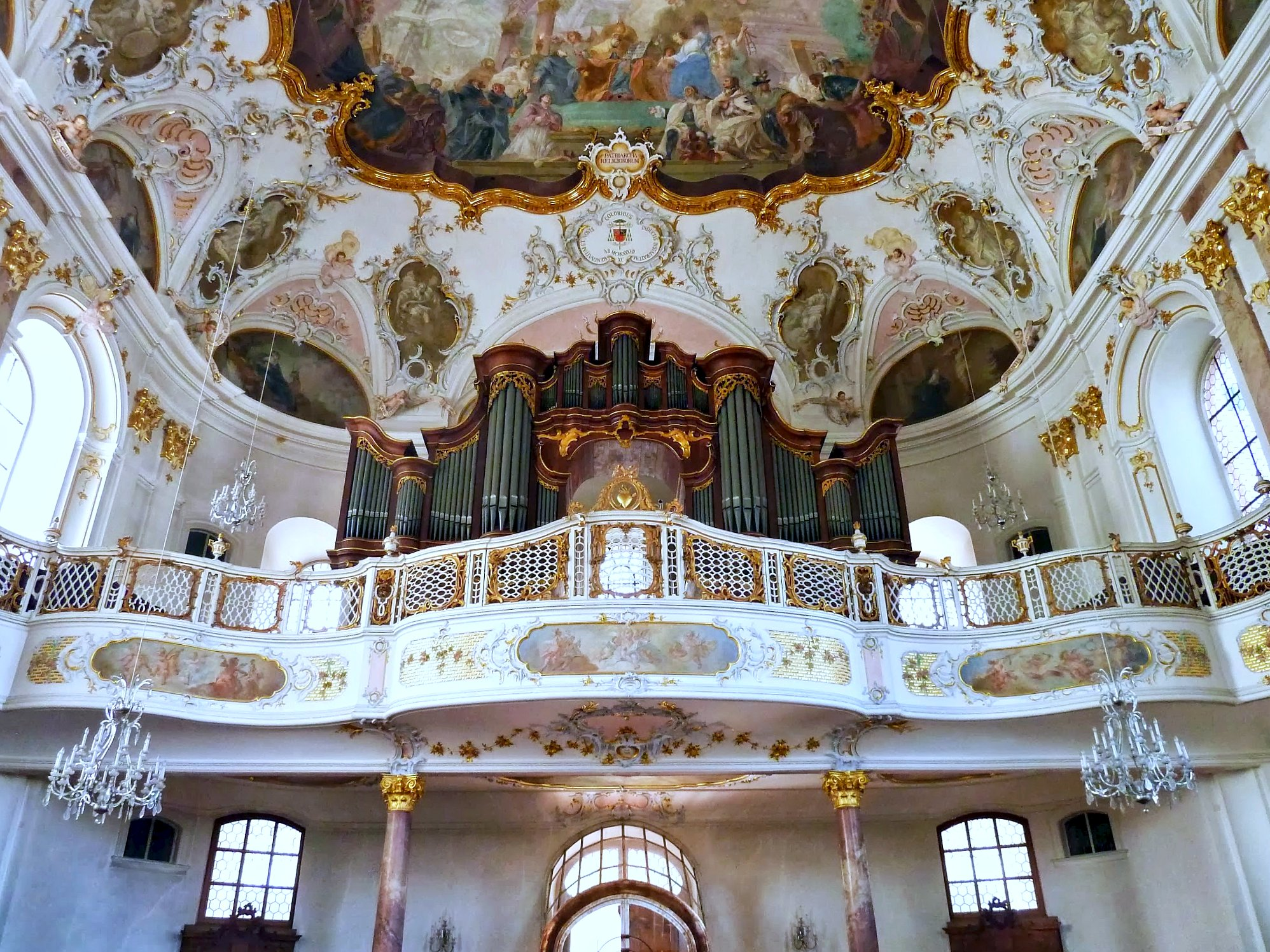 Augustinerkirche Mainz, Stumm-Orgel, one of the most significant late-baroque organs in central Europe